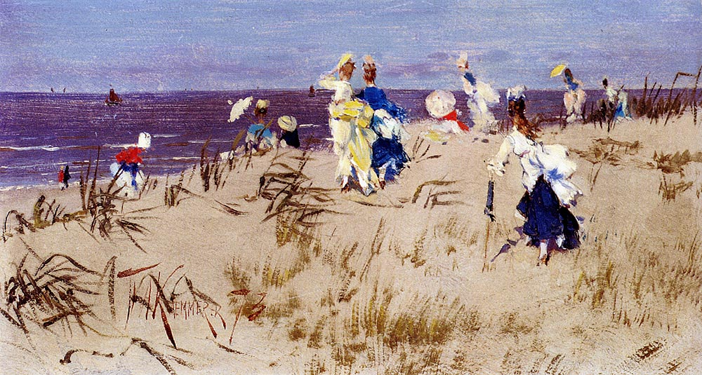 Elegant Women On The Beach